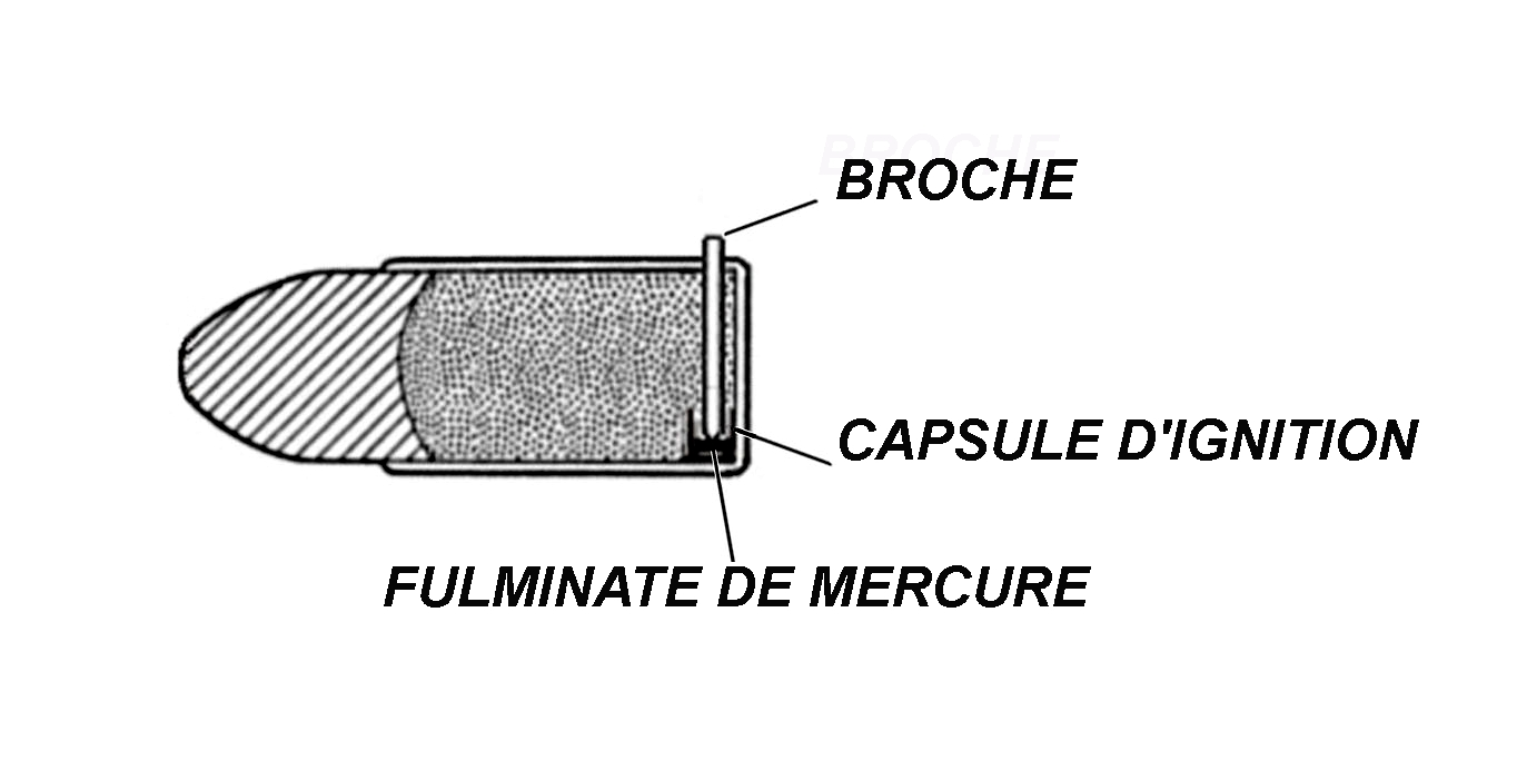 Sectional drawing Pinfire cartridge